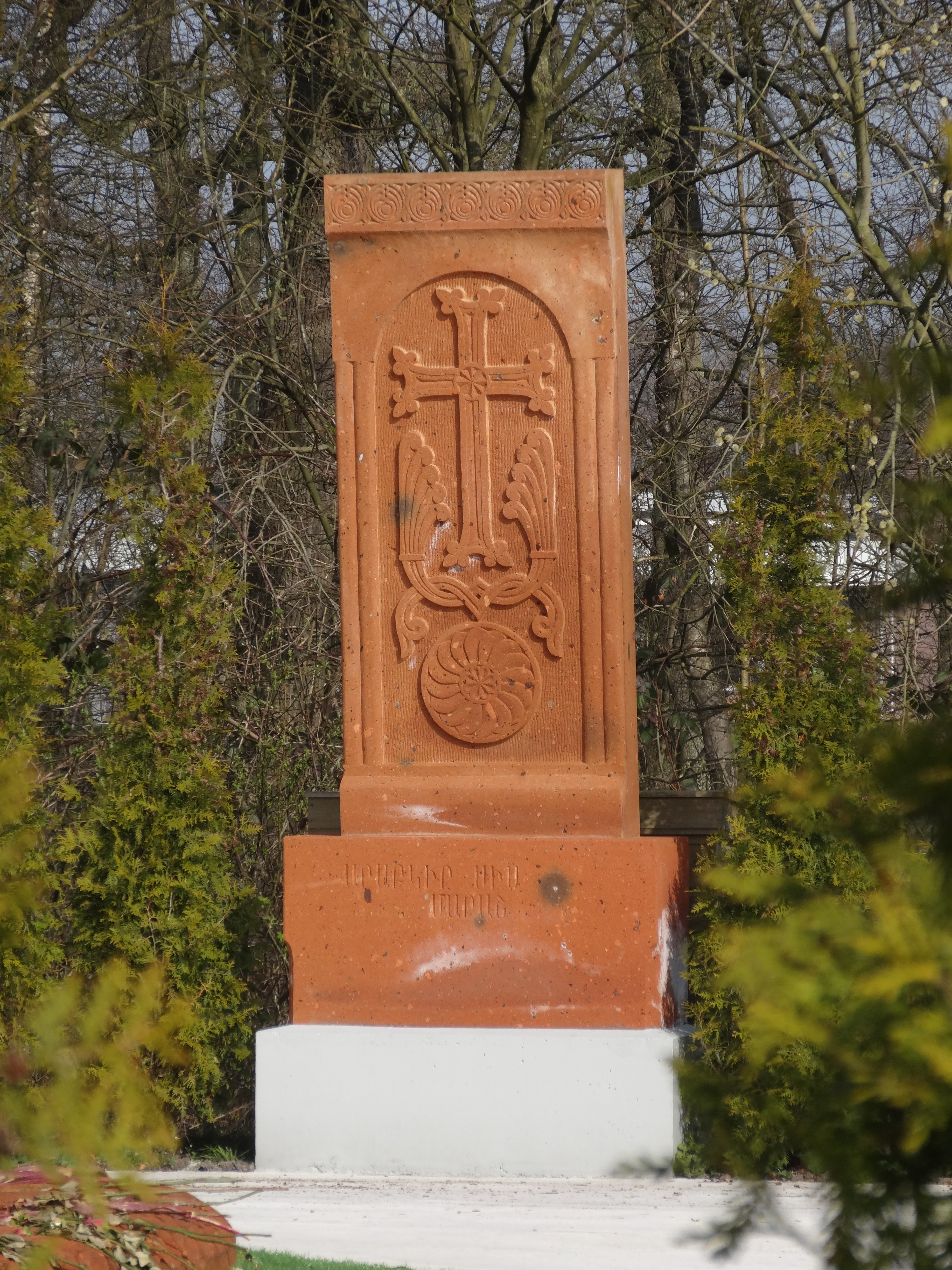 Khatchkar of the genocide memorial in Almelo, Netherlands